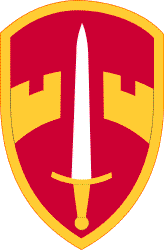 Shoulder Sleeve Insignia of the Military Assistance Command, Vietnam. Symbolism: Yellow and red are Vietnam's colors. The red ground alludes to the infiltration and aggression from beyond the embattled "wall" (i.e., the Great Wall of China). The opening in the "wall" through which this infiltration and aggression flow is blocked by the sword representing United States military aid and support. The "wall" is arched and the sword pointed upward in reference to the offensive action pushing the aggressors back. Background: The shoulder sleeve insignia was originally approved for the U.S. Army personnel serving in Vietnam on March 5, 1963. It was amended to extend authorization of wear by personnel assigned to the U.S. Military Assistance Command, Vietnam, on February 10, 1966.